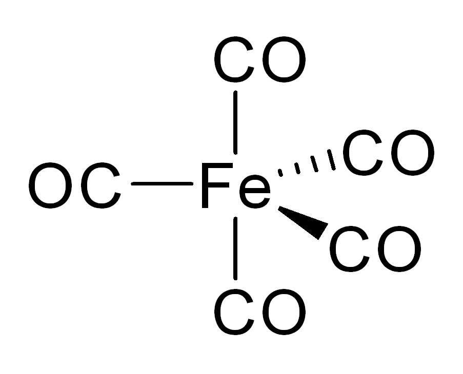 Text form of iron pentacarbonyl (Fe(CO)5) structure, drawn in ChemDraw by User:Walkerma May 2006.